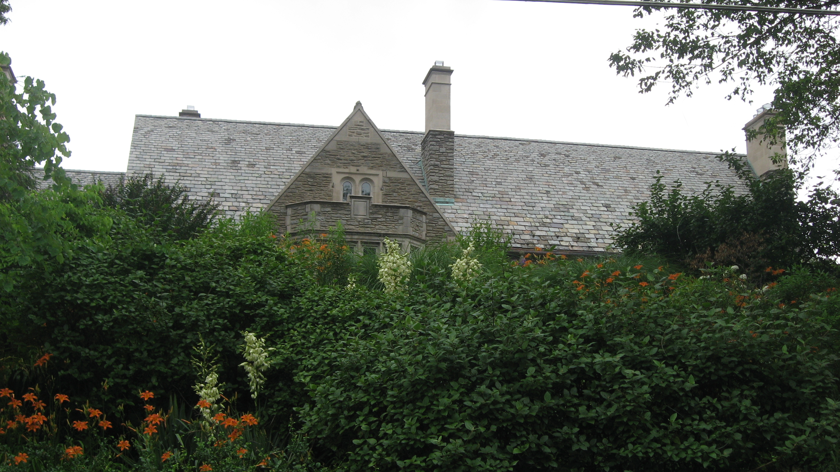 Front of Lillybanks, located at 2386 Grandin Road in Cincinnati, Ohio, United States. Built in 1926, it is listed on the National Register of Historic Places.